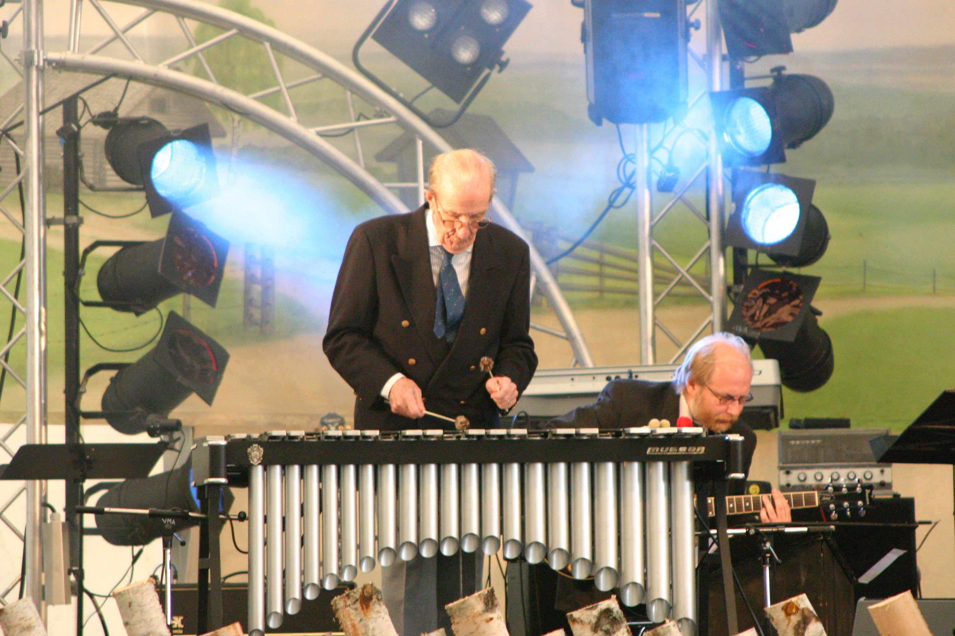 Erik Lindström in Vihreät Niityt music festival in the summer 2004.